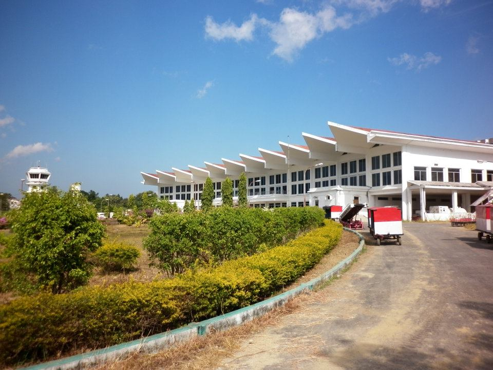 the terminal building of lengpui airport